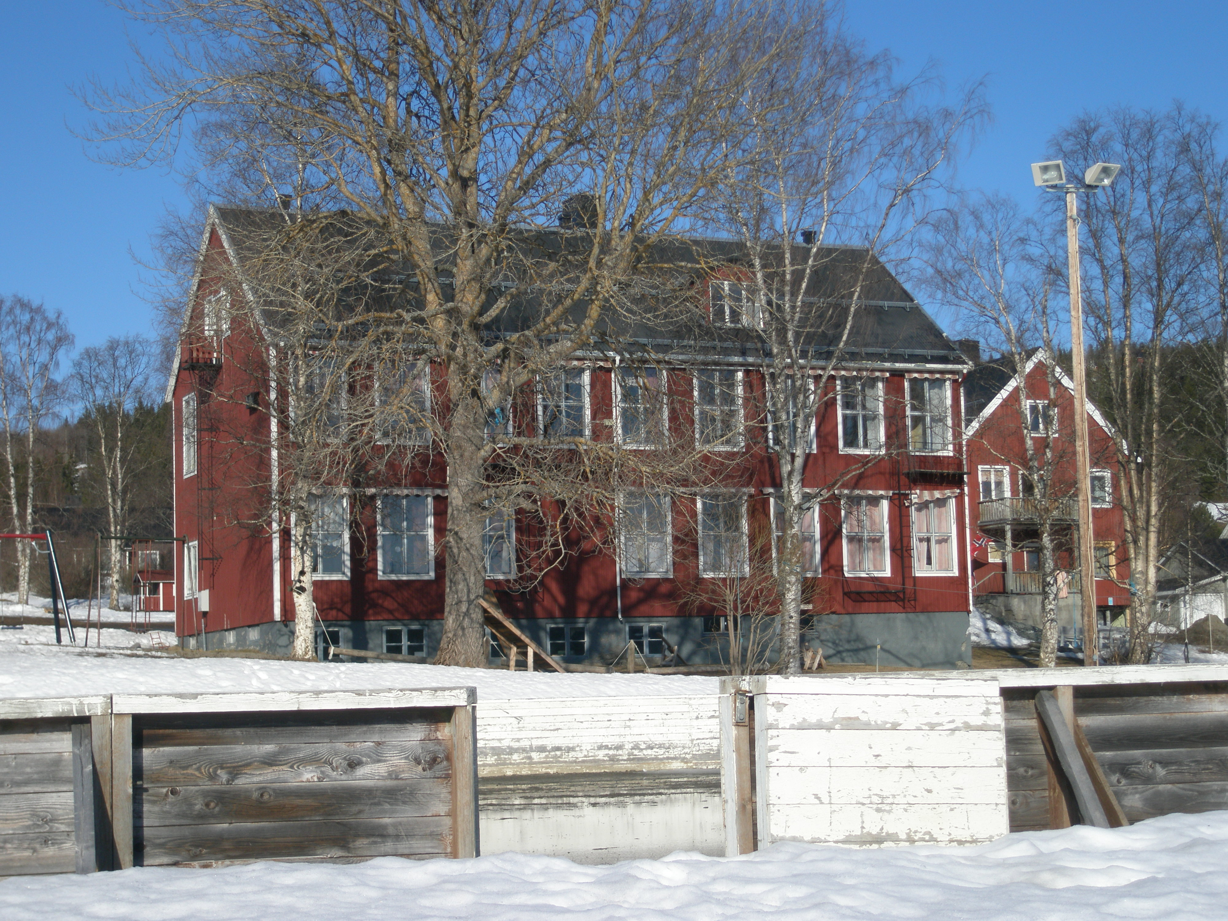 Kaxås, Offerdal, Krokom, Jämtland, Sweden.